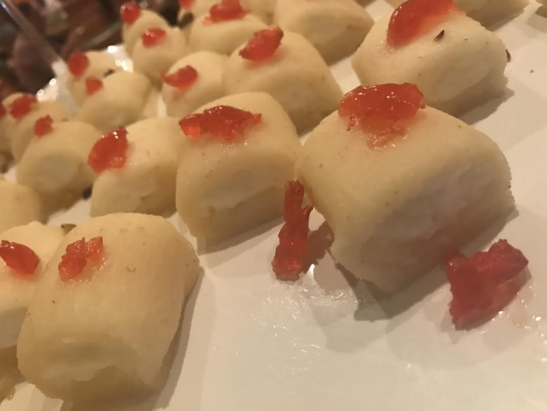 Halawet el Jibn حلاوة الجبن